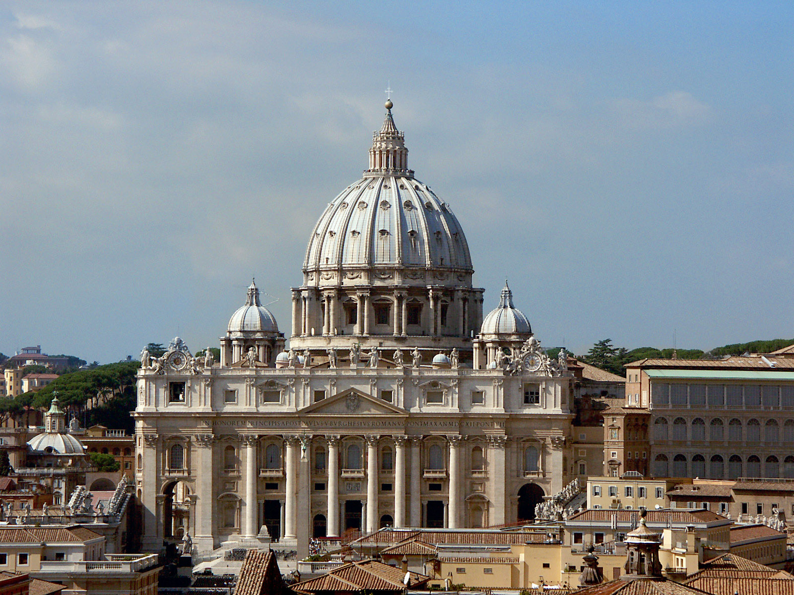 St. Peter's Basilica in Rome seen from the roof of Castel Sant'Angelo.